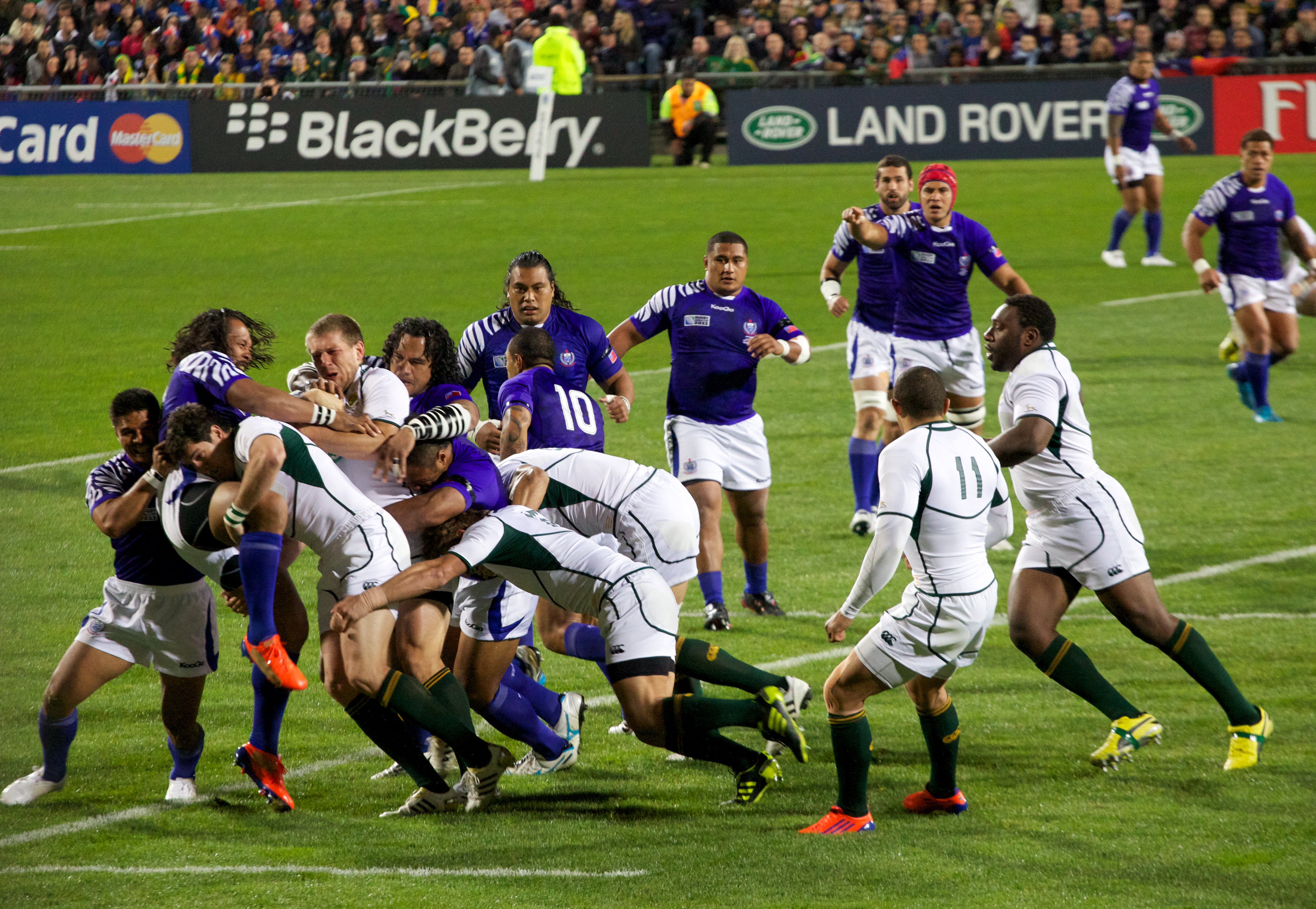 Match between South Africa vs Samoa during 2011 Rugby World Cup in New Zealand.